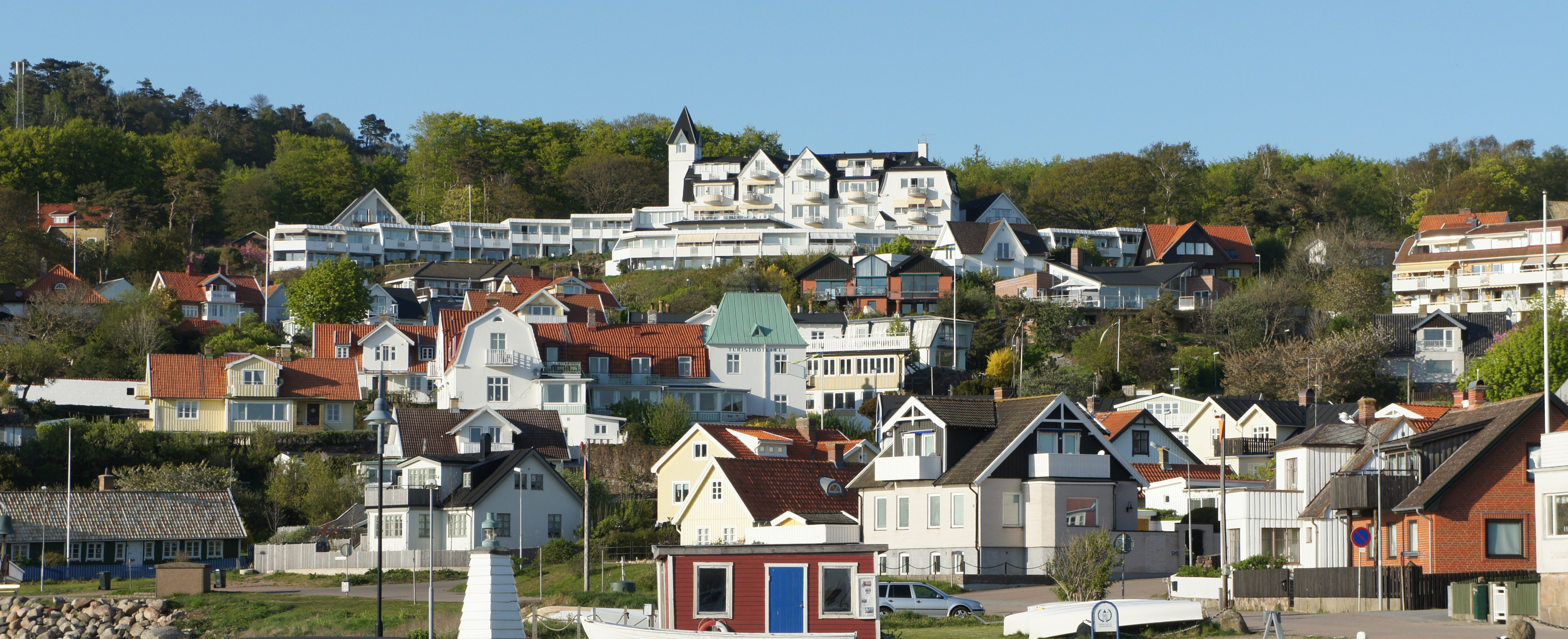 Houses and hotels in Mölle, Sweden